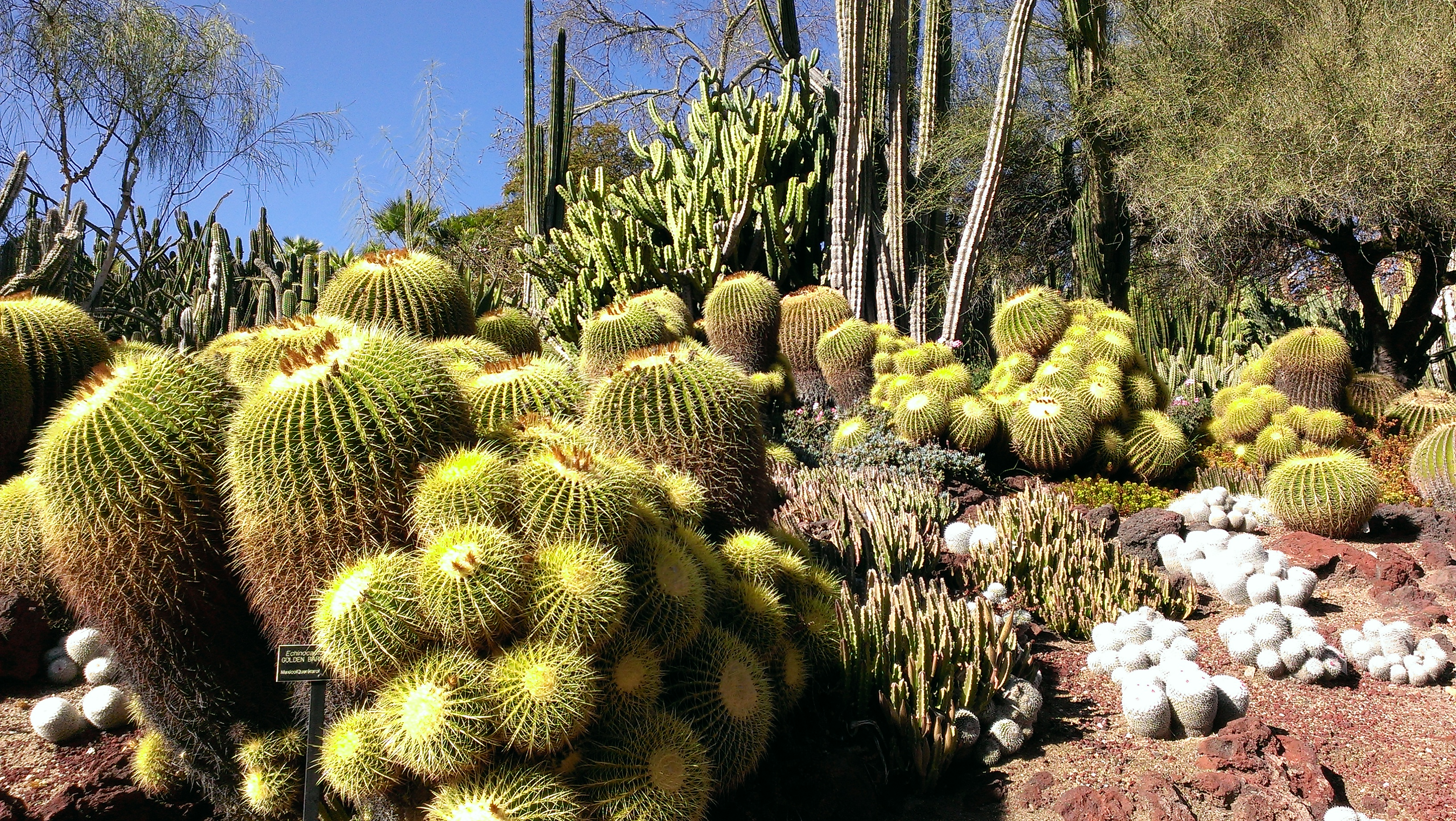 Barrel cacti at Huntington Library, Art Collections and Botanical Gardens